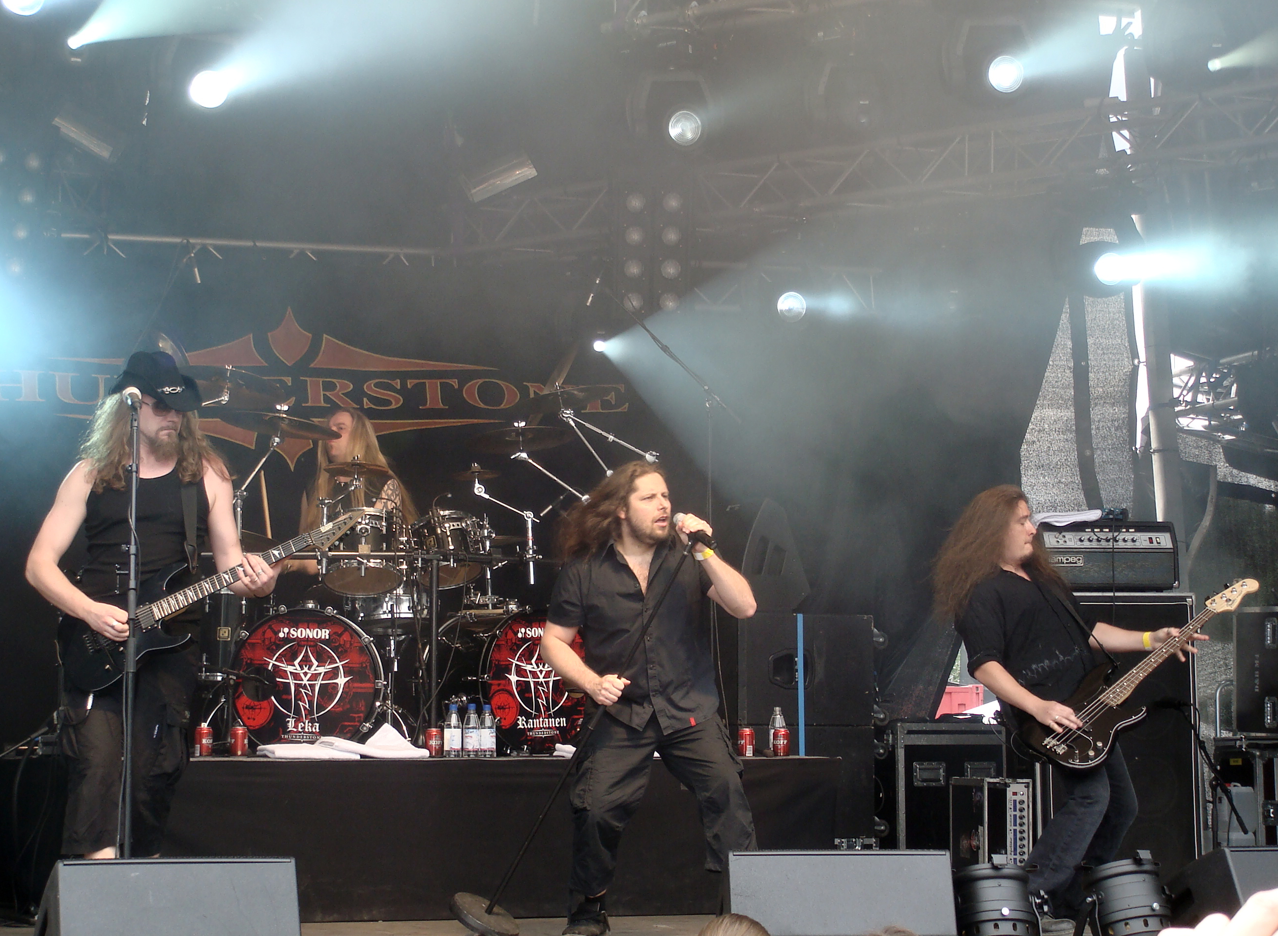 Finnish metal band Thunderstone performing at the Sauna Open Air Metal Festival in June 2007